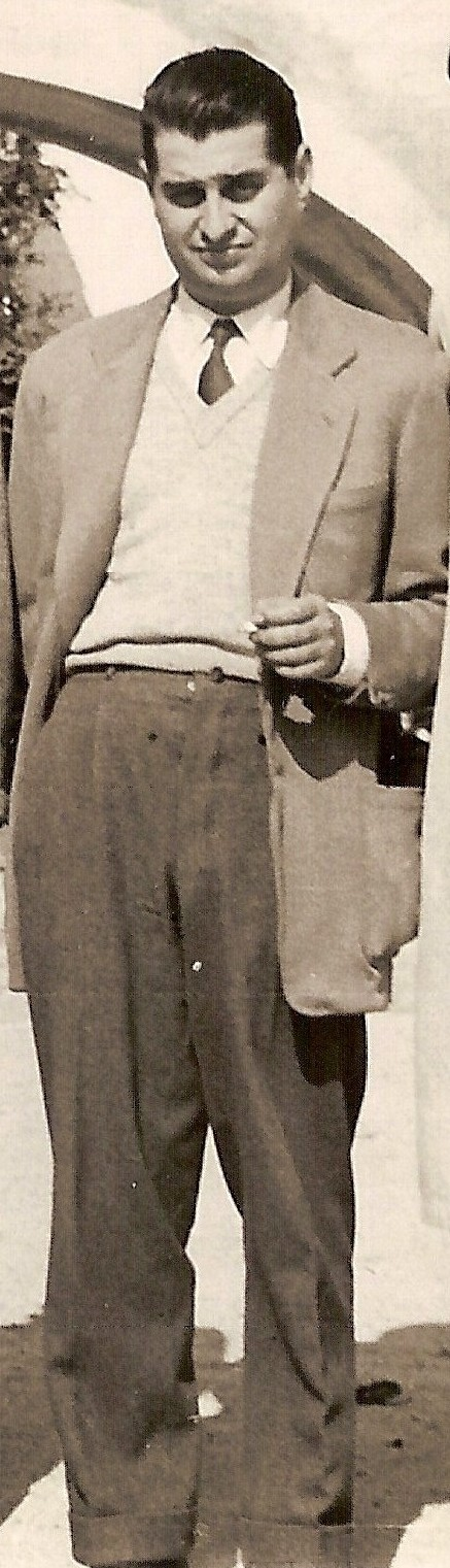 Part of the Destino's team in the 40th years. From left to right, Joan Teixidor, Manuel Brunet, Josep Vergés, Néstor Luján and Josep Pla.